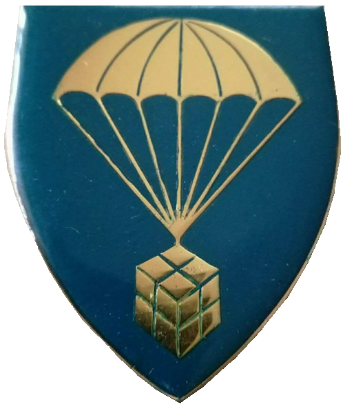 SANDF 101 Air Supply Unit